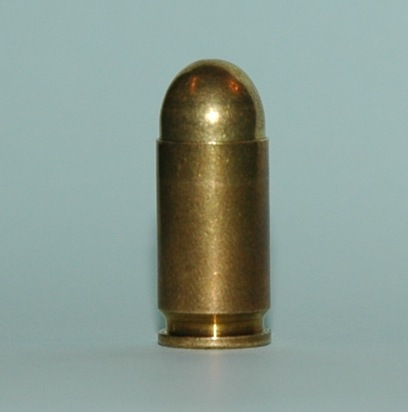 9 x 18 mm Soviet pistol and submachine gun cartridge